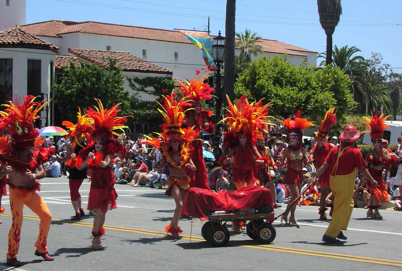 2005 Summer Solstice parade, Santa Barbara; by self, GFDL